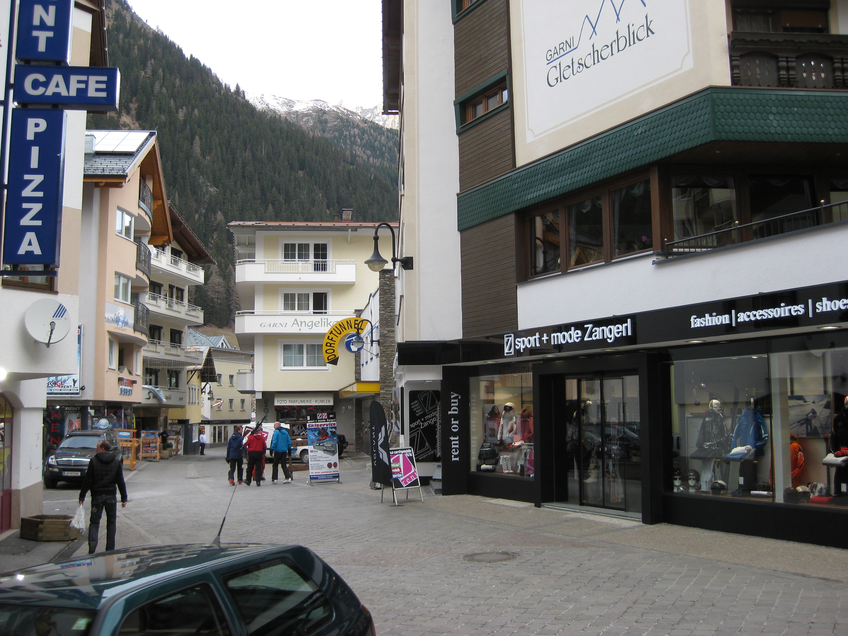 Photo of the village Ischgl with some shops